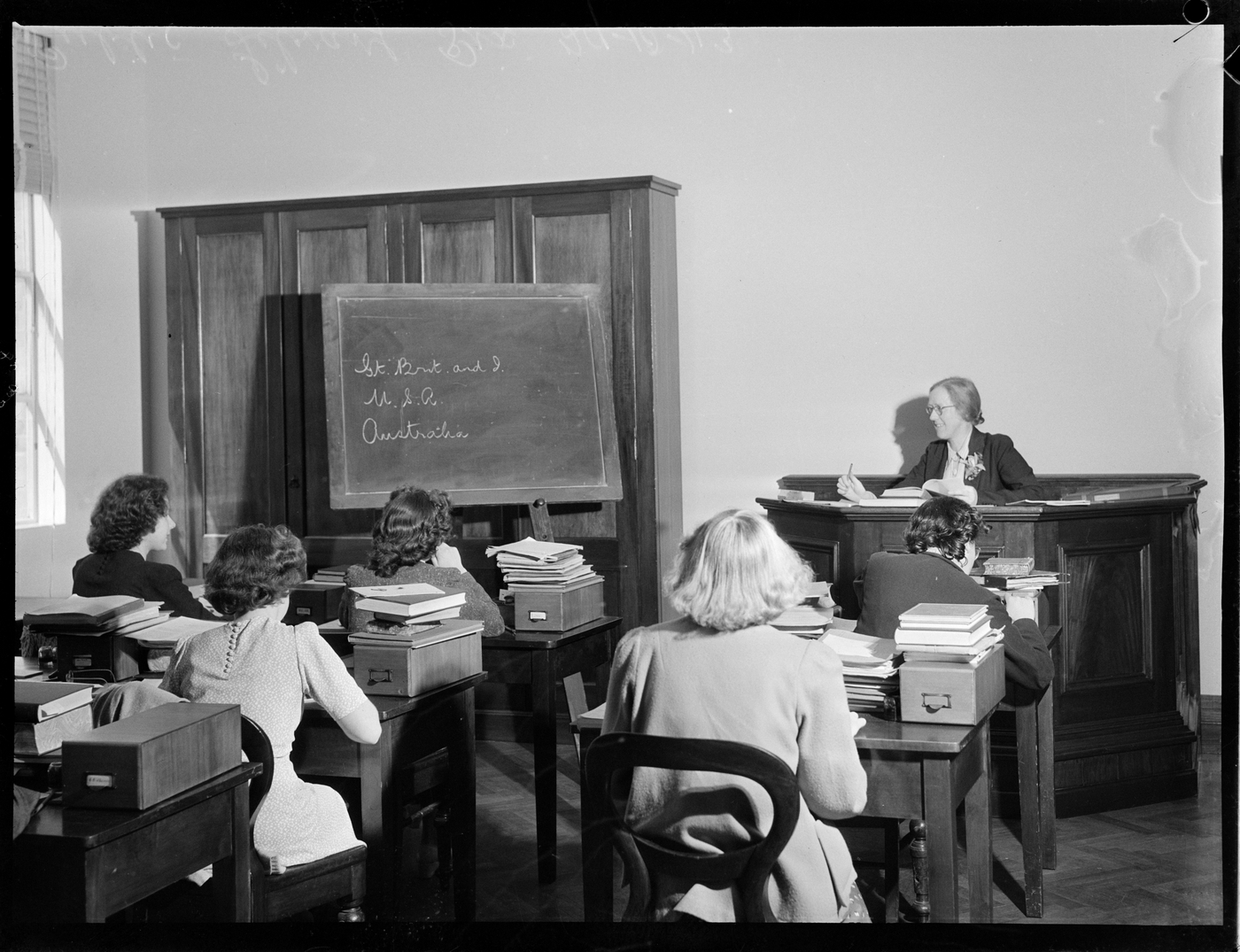 A group of female library staff in a class looking at a blackboard.